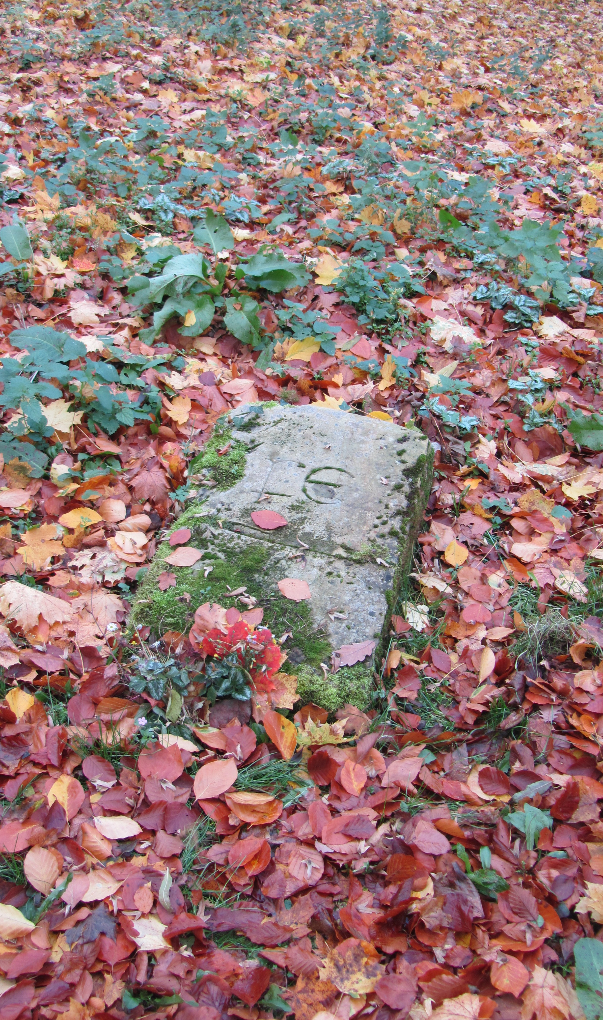 memorial stone at 'Elisabethplan' below Wartburg Castle, Eisenach, Germany